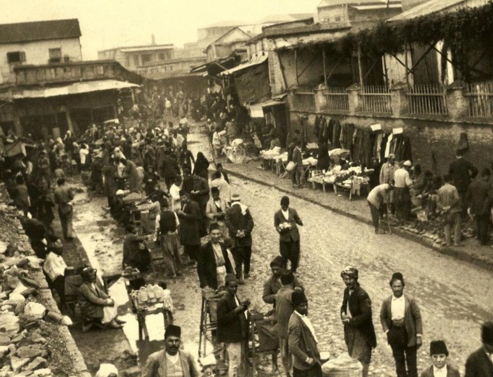 Adana in 1921, Ottoman Empire (now Turkey)